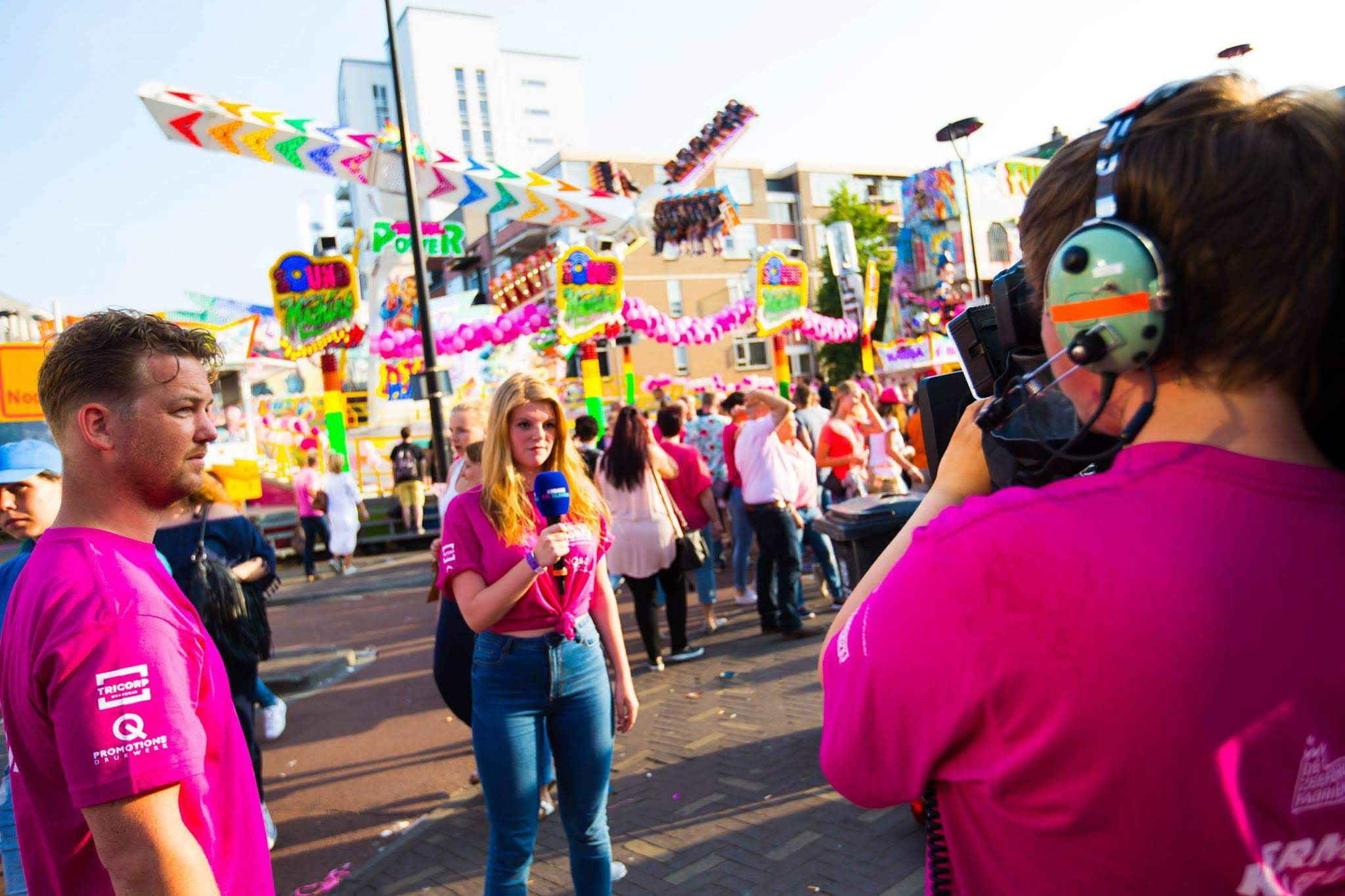 TV Ploeg op Roze Maandag 2016